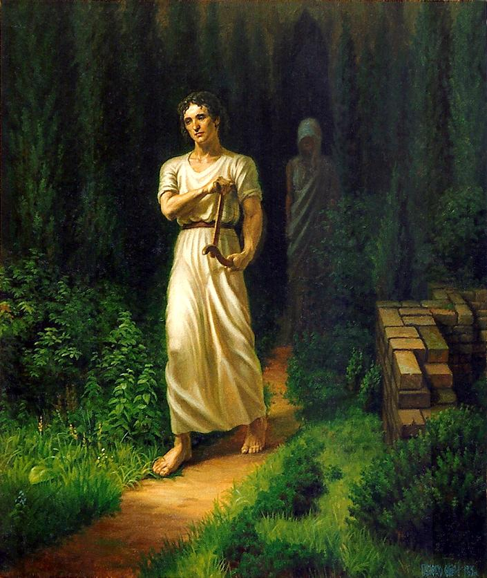 "Orpheus and Eurydice". 1993. Peintre : S. P. Panasenko.